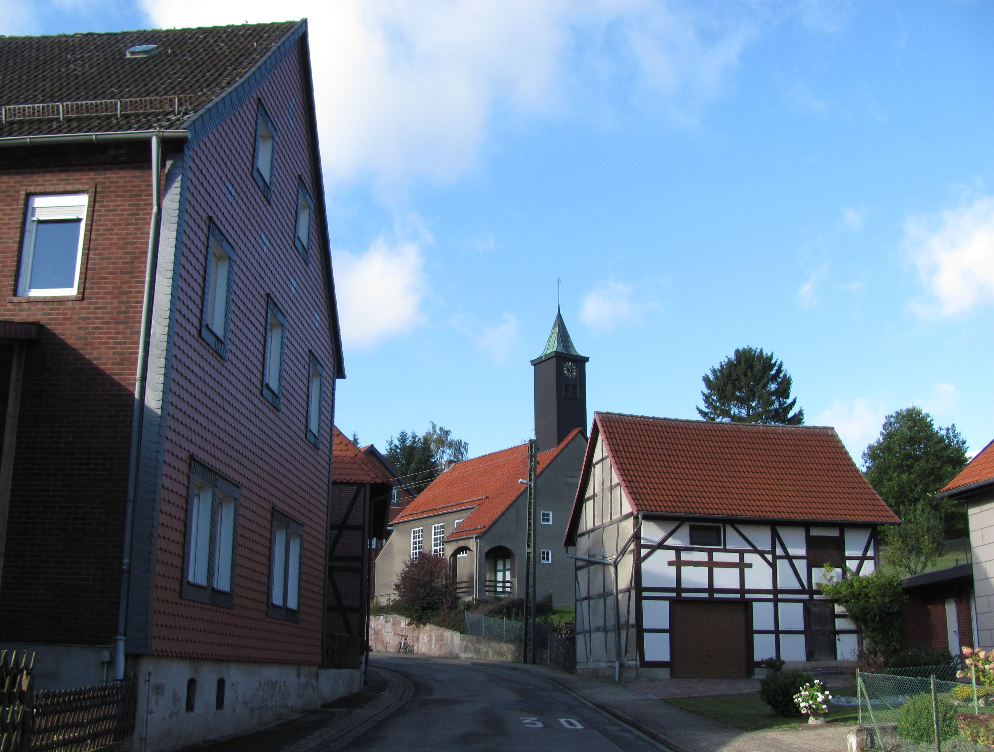 Protestant Church, Irmenseul near Hildesheim, Lower Saxony, Germany